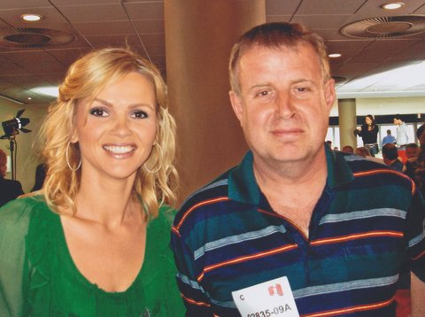 Peter van der Sluijs from Spijkenisse with Tooske ragas during the best idea of Netherlands